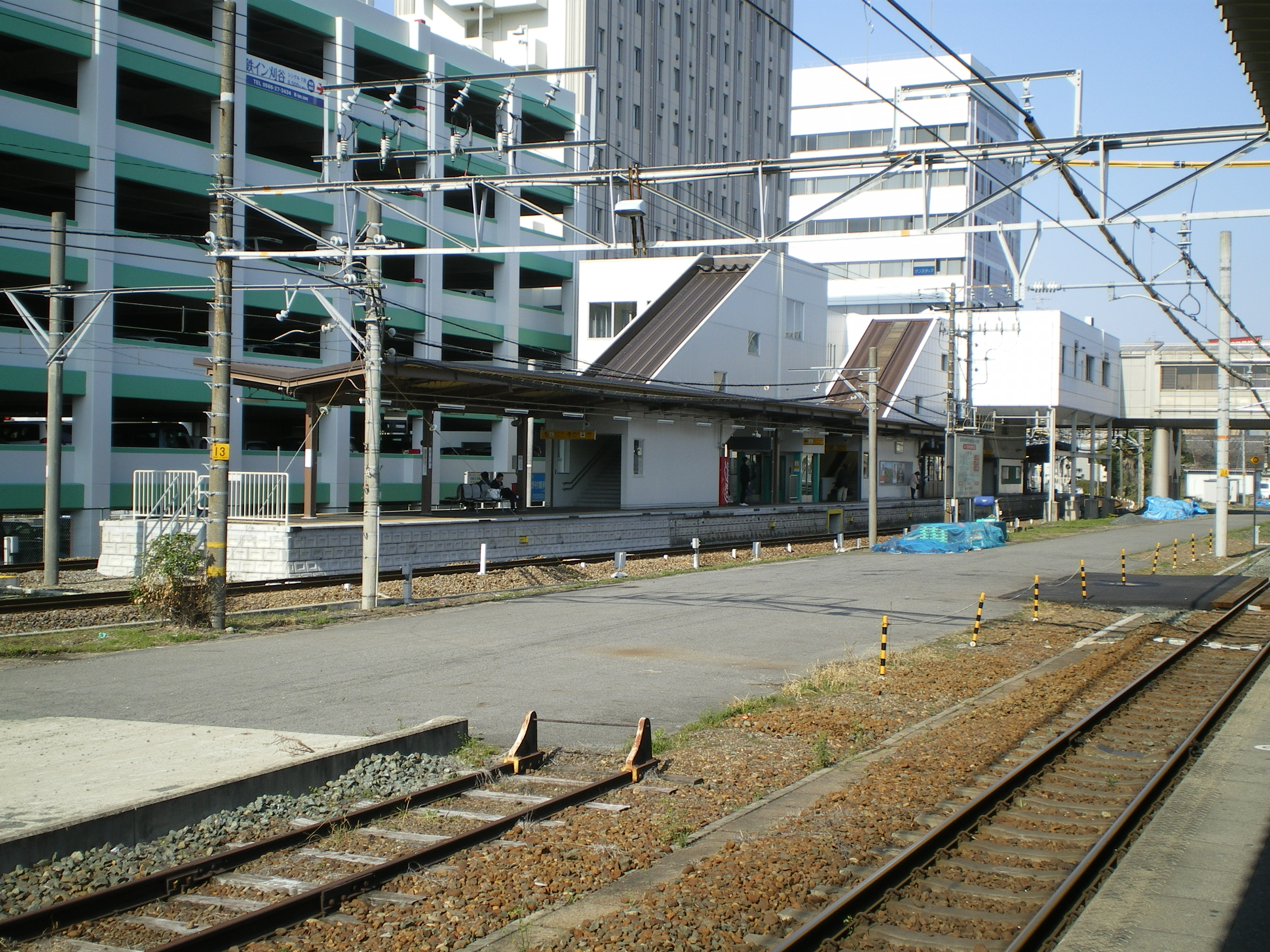 Nagoya Railroad Mikawa Line Kariya Station Platform (Photographed by the platform of Central Japan Railway Tōkaidō Main Line Kariya Station)